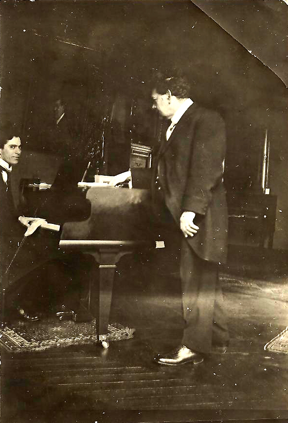 Charles W. Clark in his house in 1912